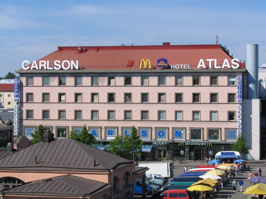 Department store Carlson in Kuopio, Finland